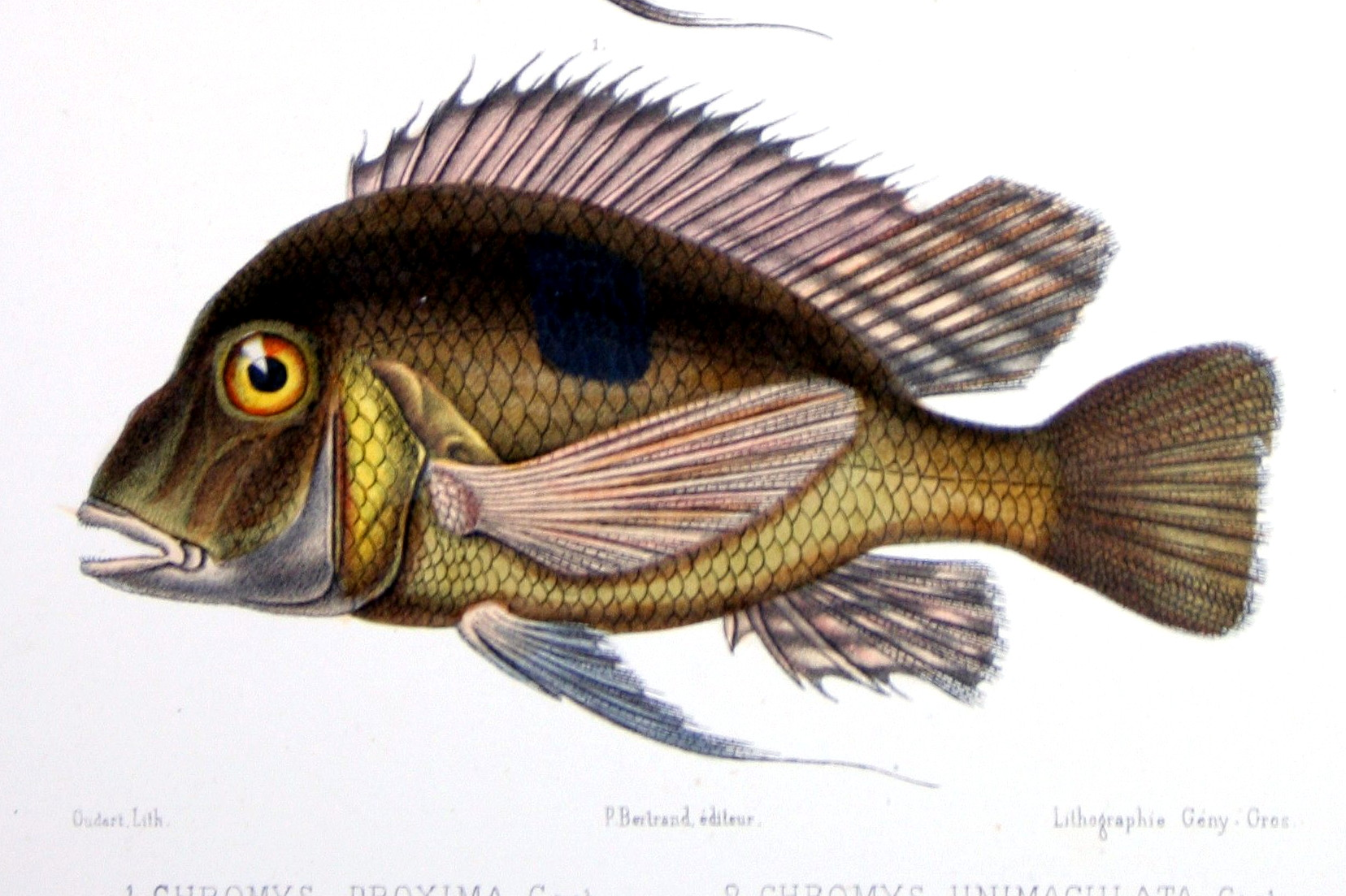 Geophagus proximus